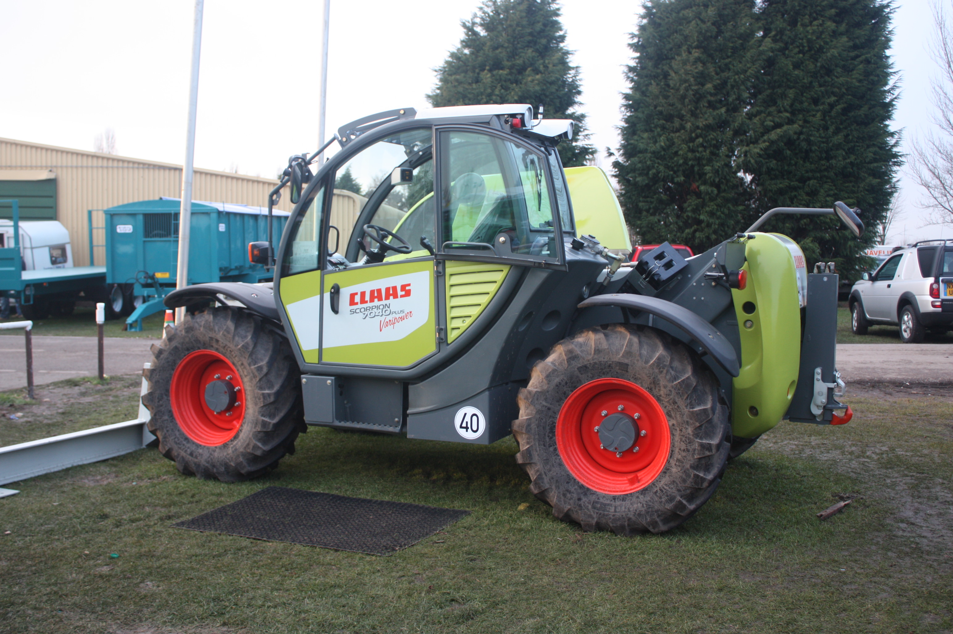 A Claas Scorpion 7040 Plus Varipower telescopic handler, fitted with pickup hitch at the LAMMA show (Lincolnshire Agricultural Machinery Manufacturers Association Show) in 2009, England